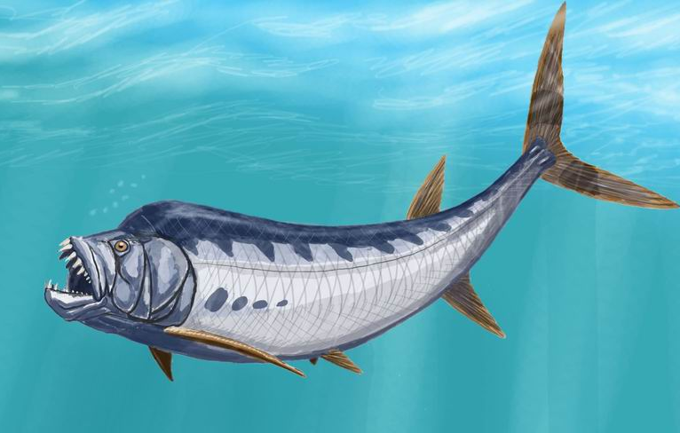 Cropped image of taxon in file name